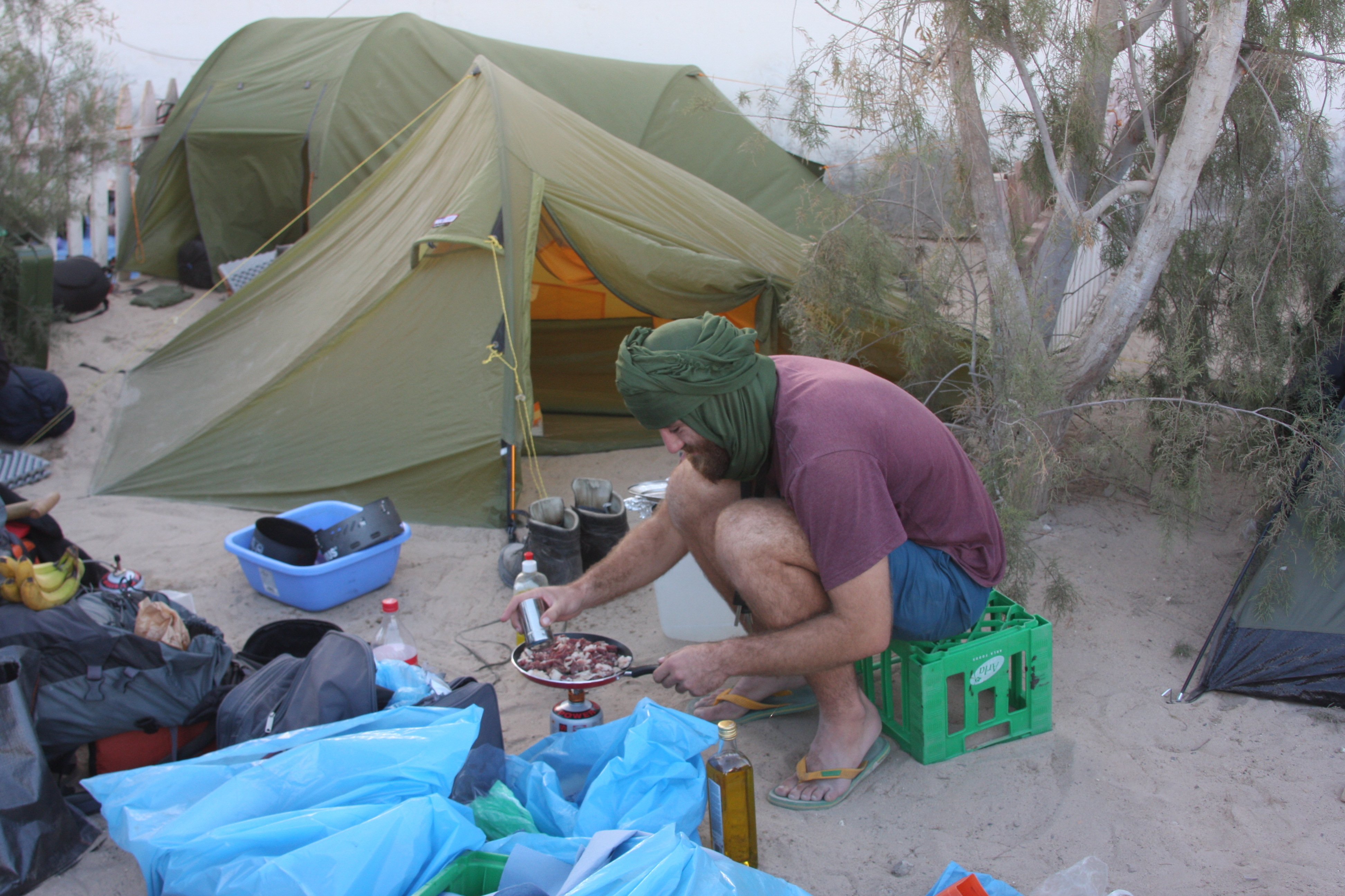 Rally participant preparing dinner at one of the camps of the Budapest-Bamako